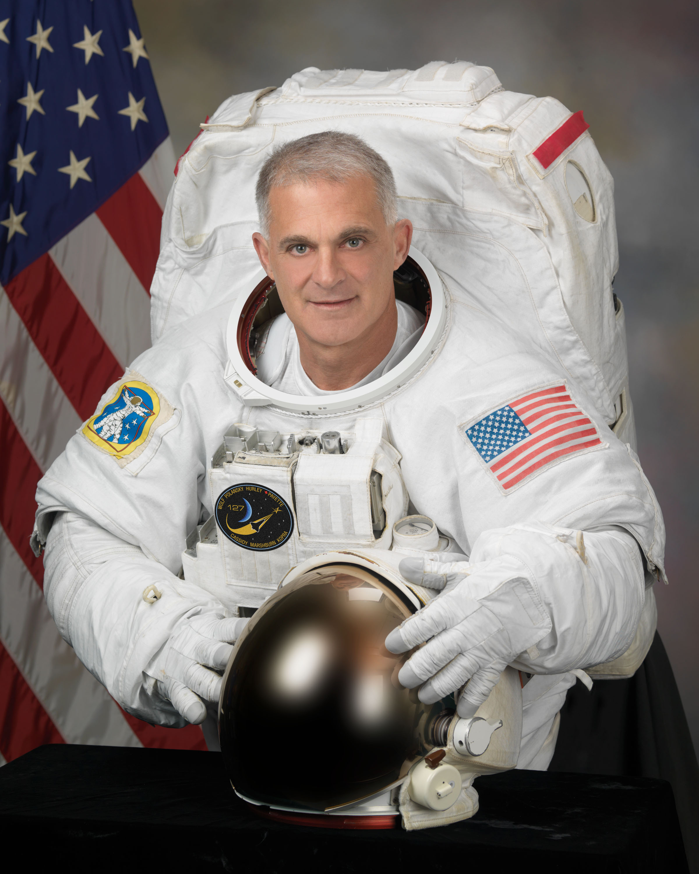 Astronaut David A. Wolf, mission specialist.